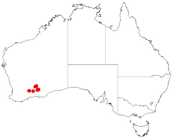 Acacia kerryana Occurrence data from Australasia Virtual Herbarium downloaded from on 8 December 2018